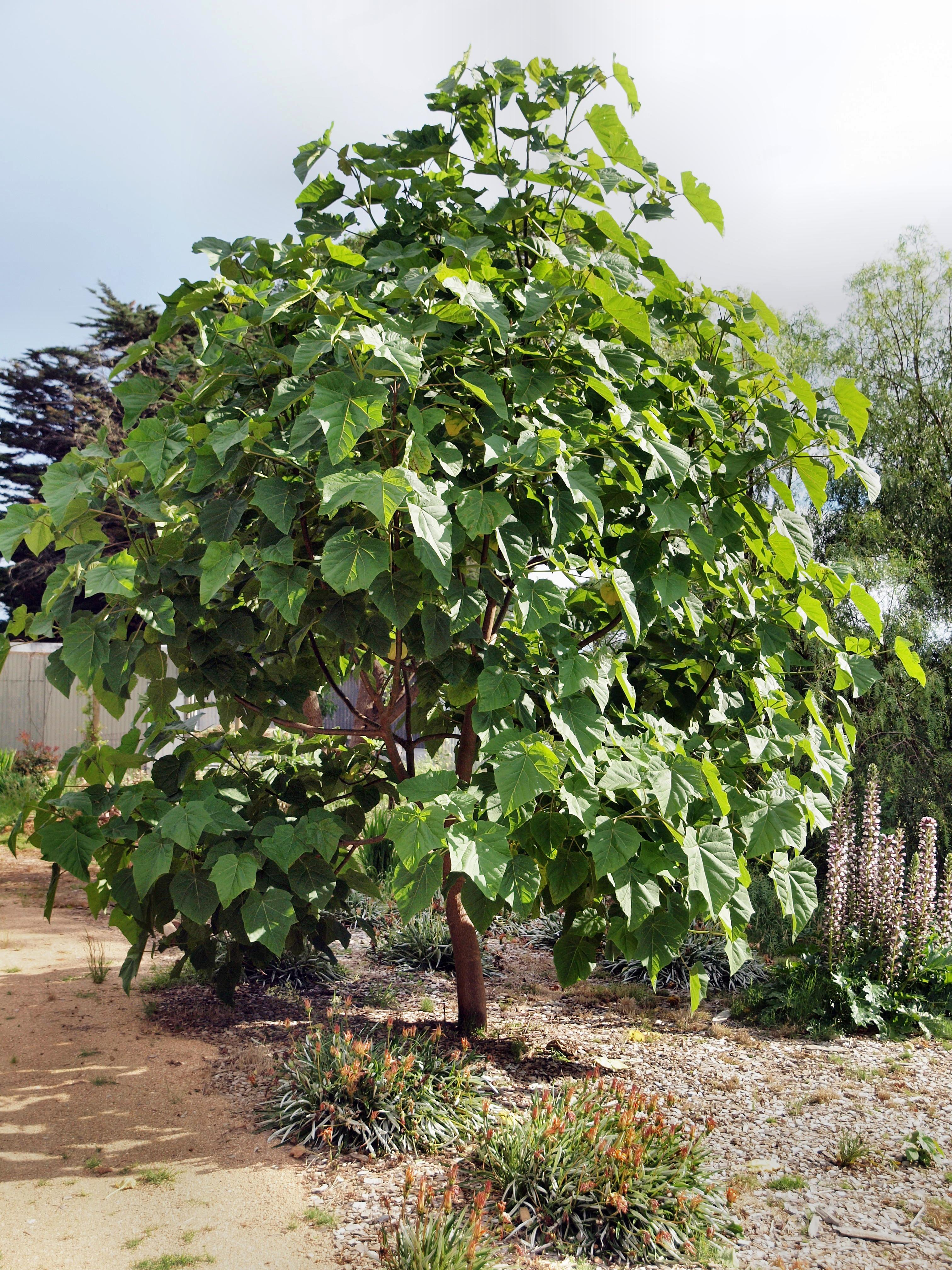 Image of Paulownia kawakamii